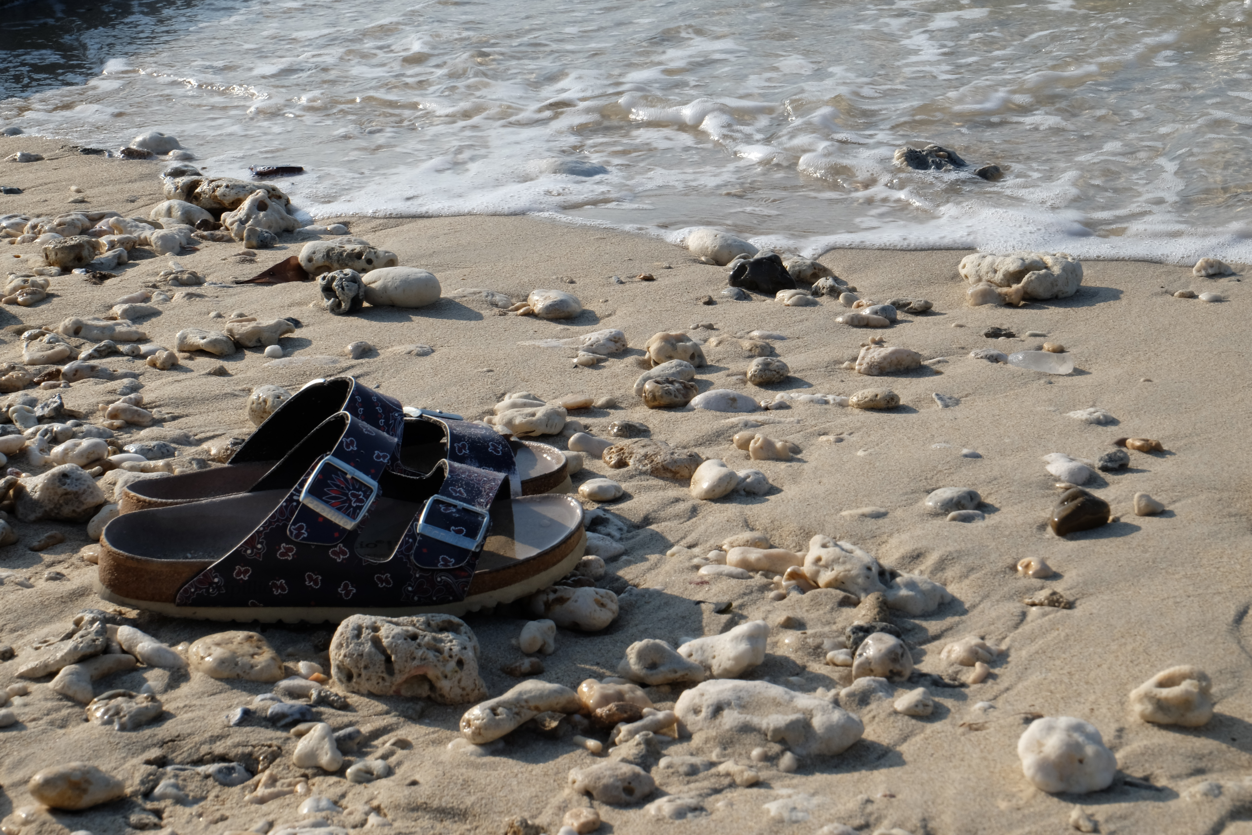 A beach in Miyagi Island, Yonashiro-uehara, Uruma, Okinawa Prefecture, Japan